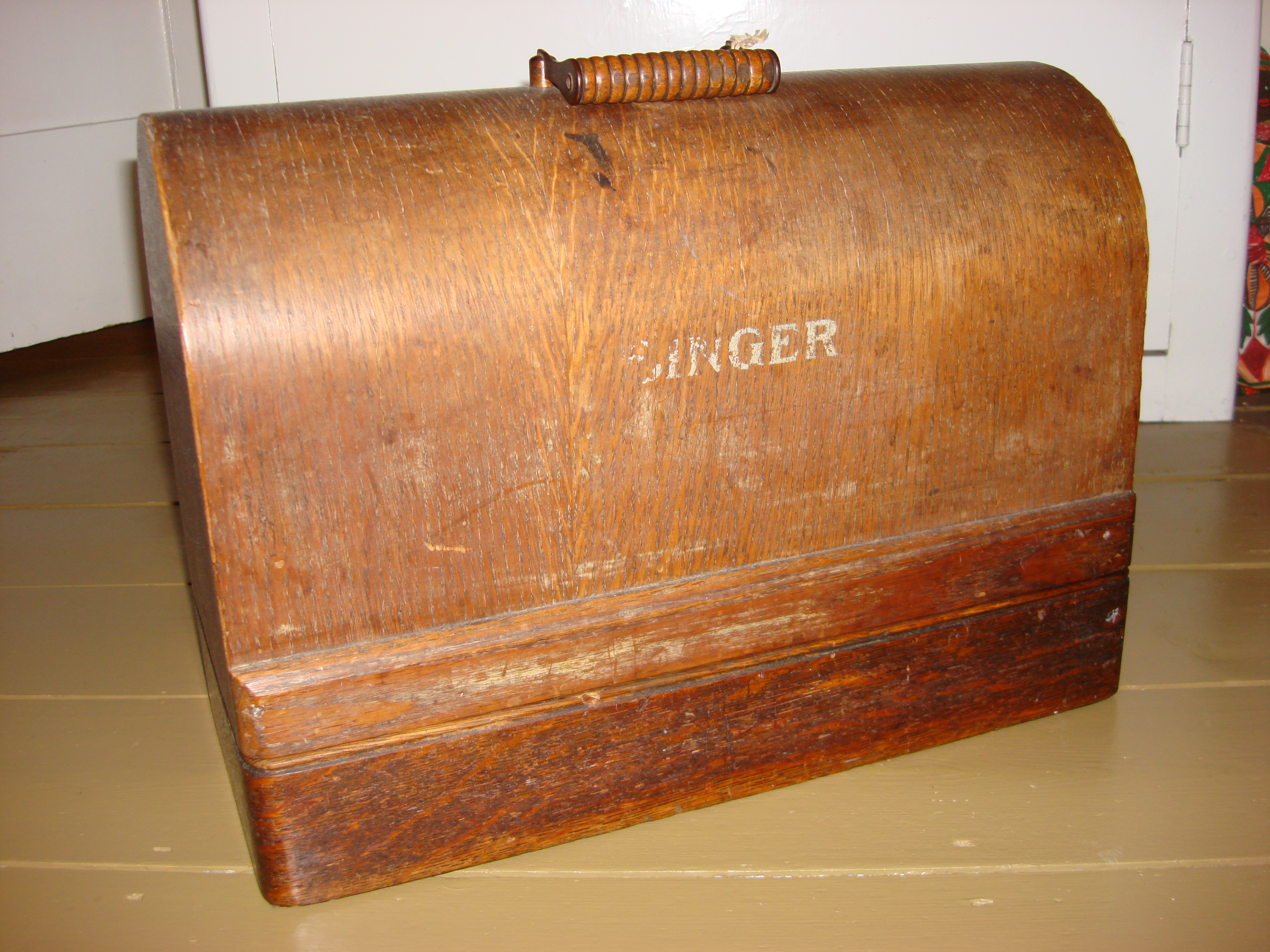 The lockable wooden lid of a Singer sewing machine